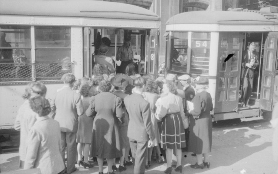 Passengers board a tram.